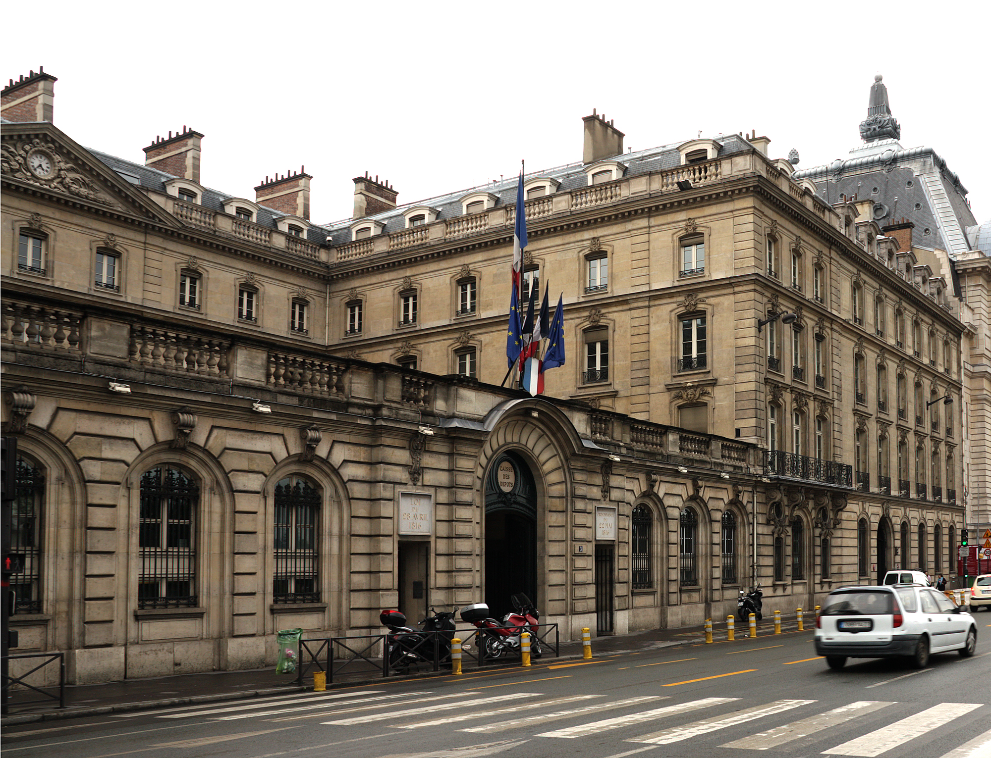 Caisse des depots, Paris France